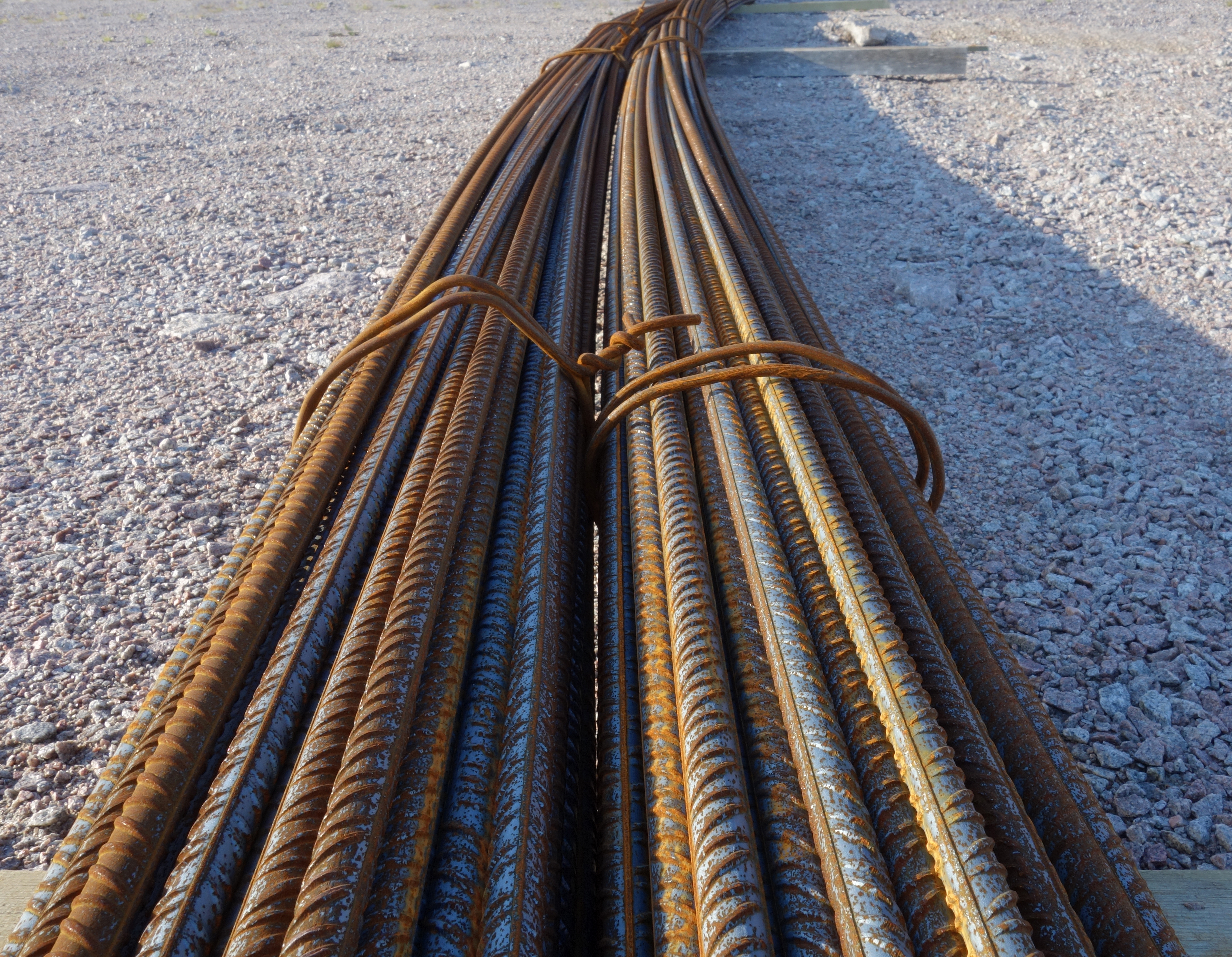 Closeup of straight rebar at construction site in Rixö old quarry, Lysekil, Sweden.